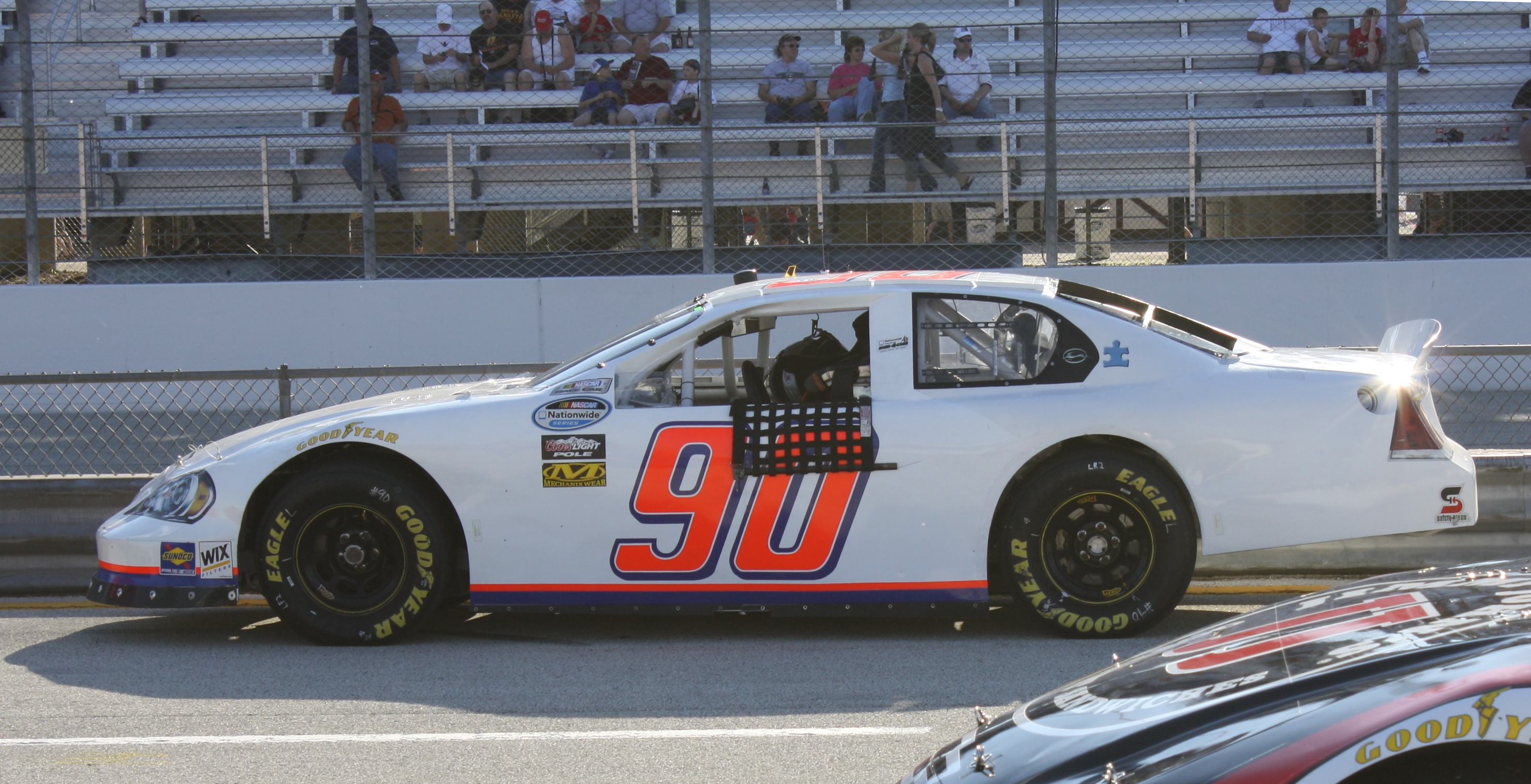 NASCAR driver Johnny Chapmans Chevrolet at the 2009 Northern 250 Nationwide Series race at the Milwaukee Mile.